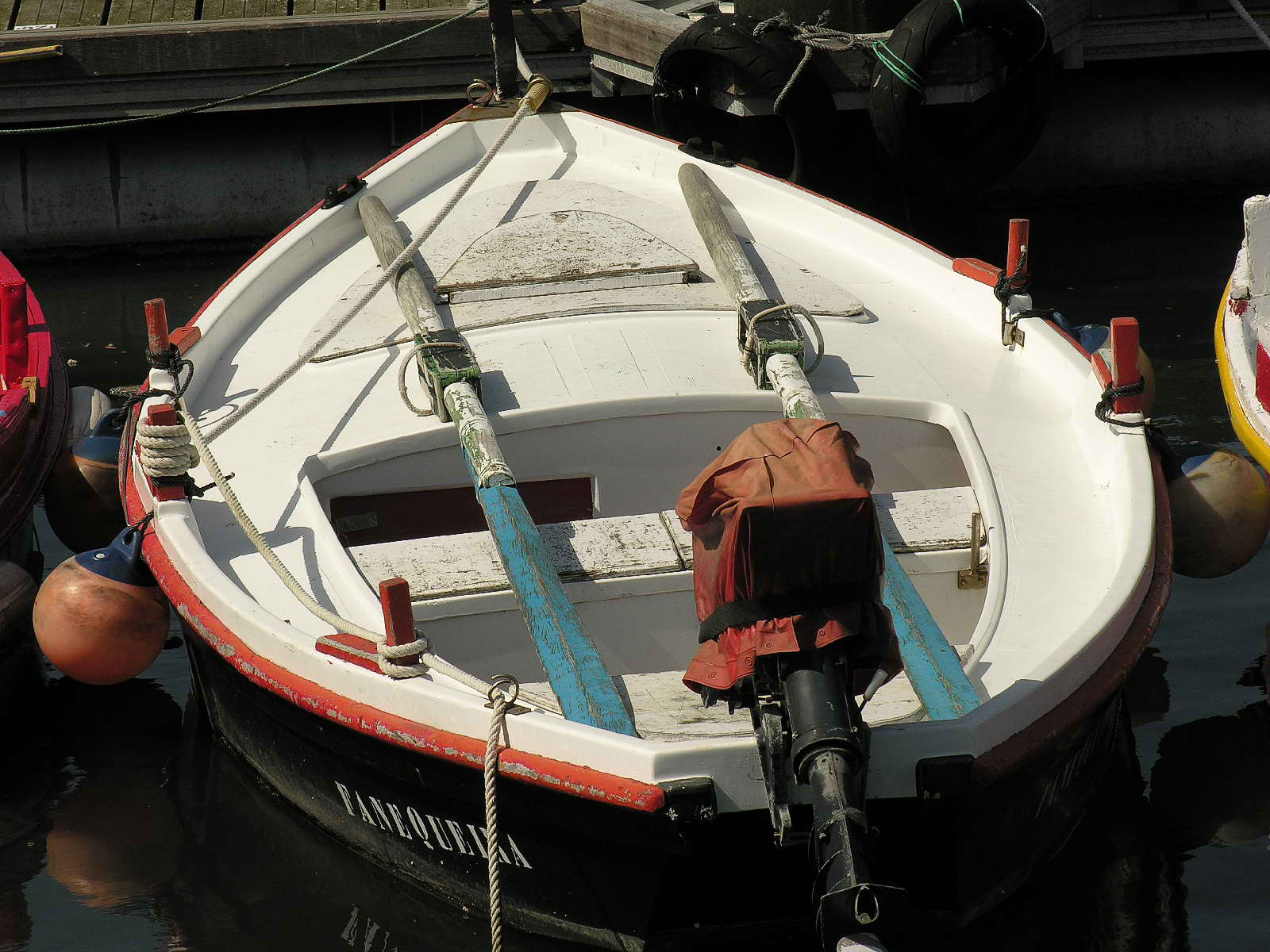 Publish by= Luis Miguel Bugallo Sánchez. Self made